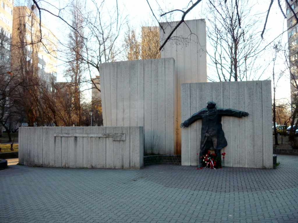 Monument of the local WW2 partisans, District IV, Budapest, Hungary